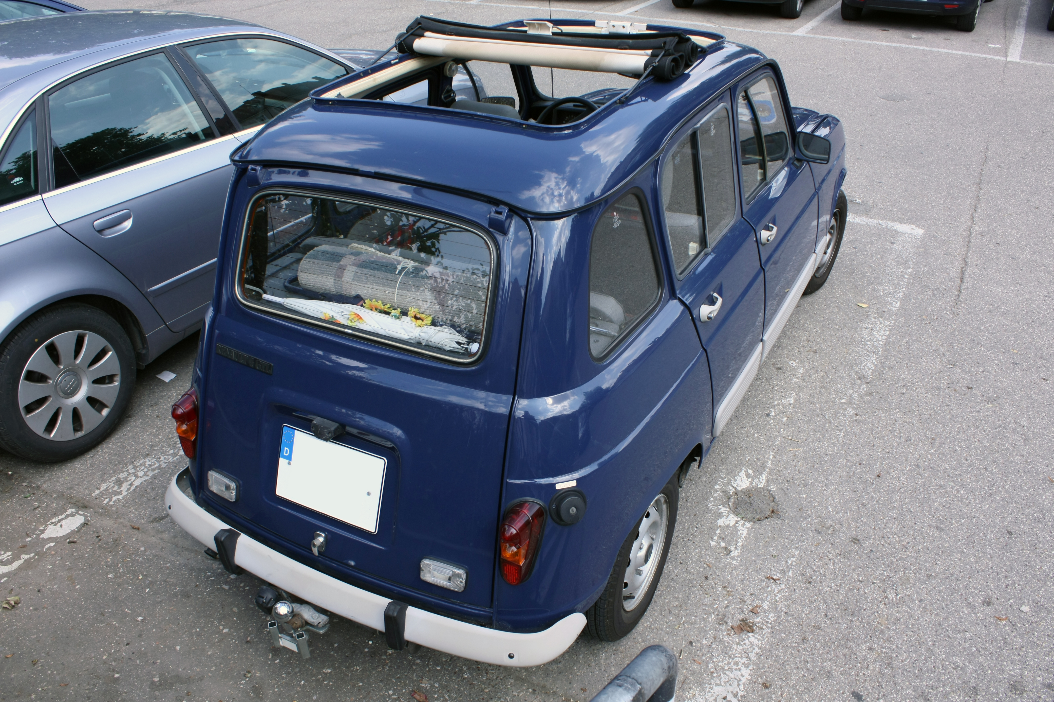 Renault 4 GTL